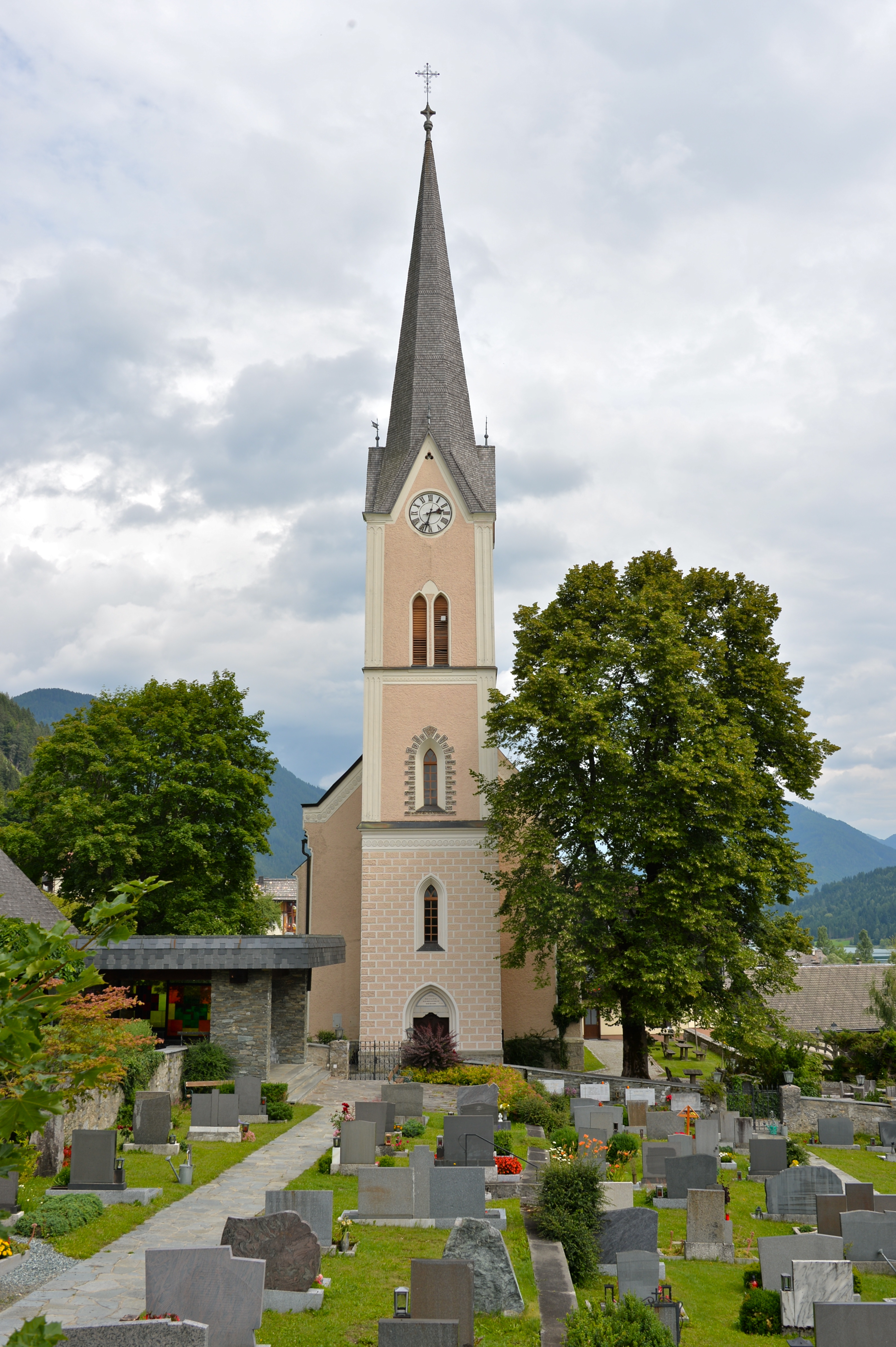 Lutheran church at Techendorf, municipality Weissensee, district Spittal an der Drau, Carinthia / Austria / EU